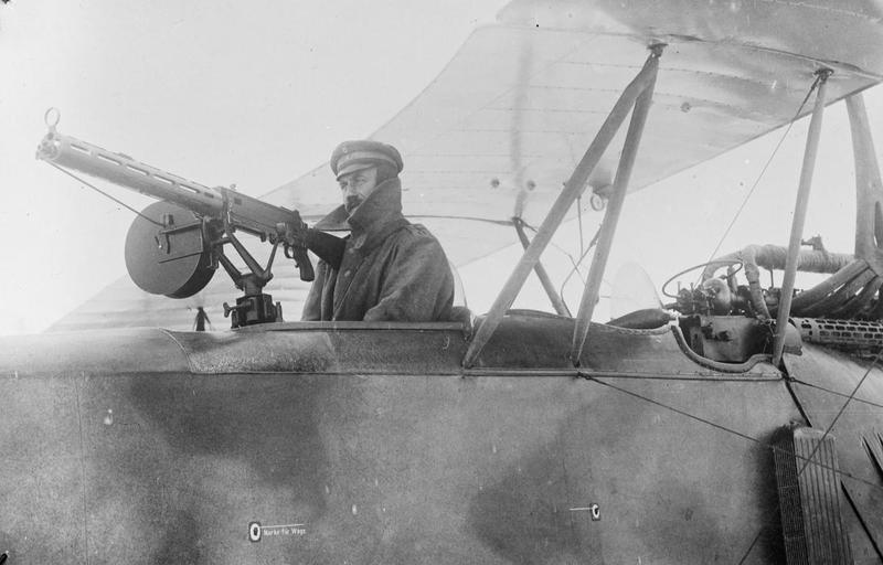 Geiser Theodore (mons) Collection Machine gun fixed to the Observer�s seat.